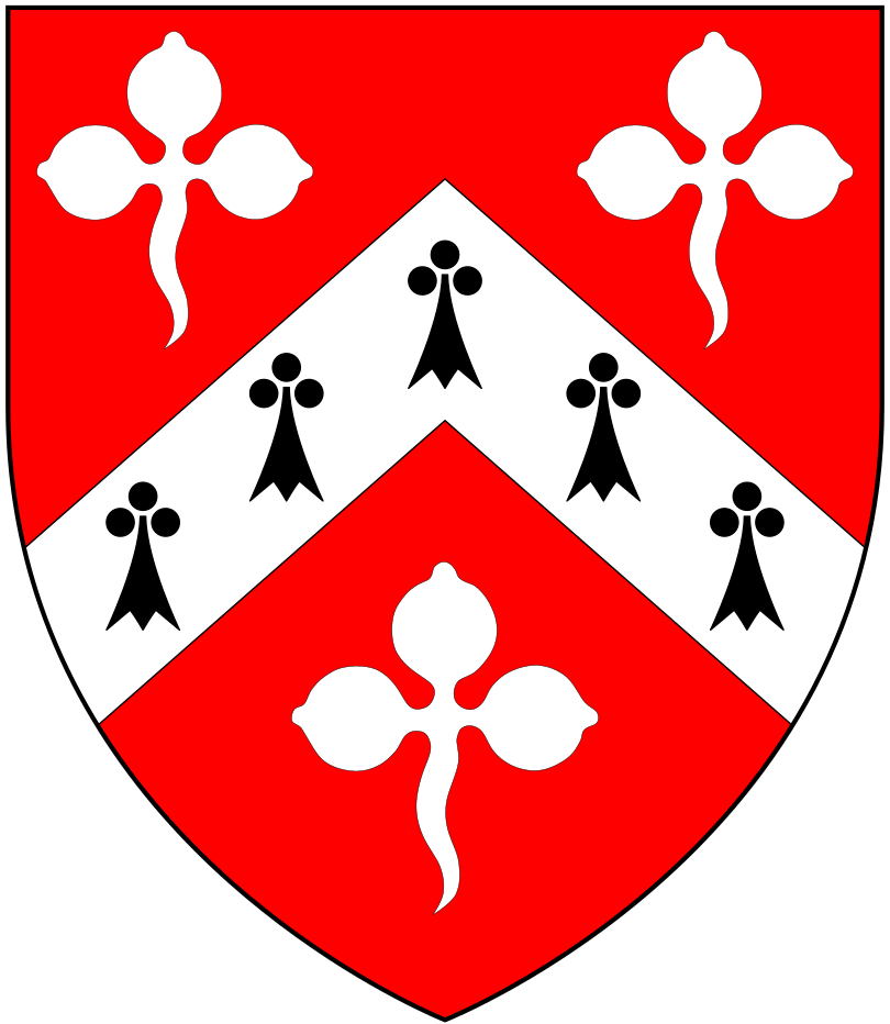 Arms of Mede of Mede's Place, Wraxall, Somerset: Gules, a chevron ermine between three trefoils slipped argent (Source: Master, George Streynsham, Collections for a Parochial History of Wraxall, 1900, pp.58-64, "Family of Mede"[1][2])